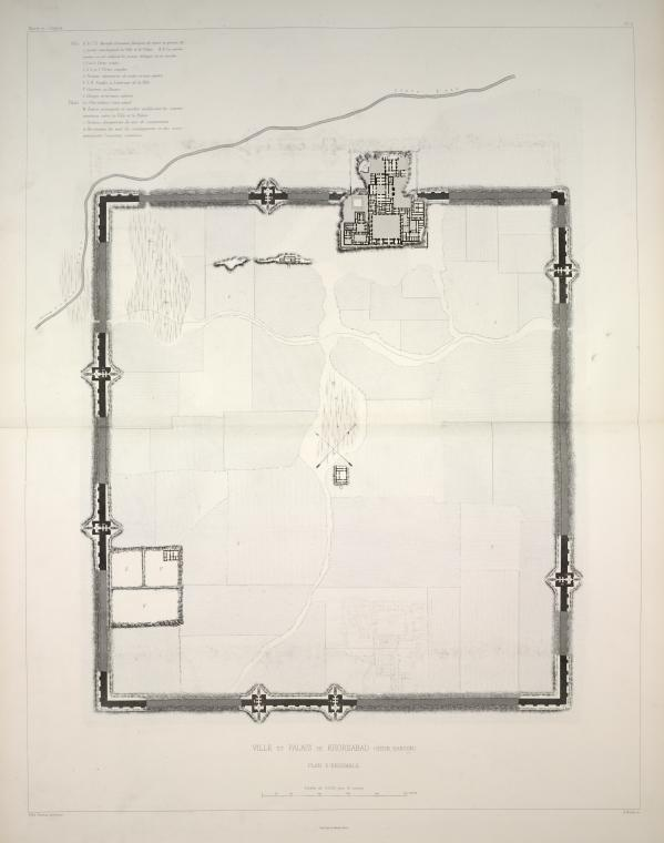 Plan of Dur-Šarruken (Khorsabad) by the French excavator Victor Place, reproduced from G. Loud, Khorsabad, Part 1: Excavations in the Palace and at a City Gate (Oriental Institute Publications 38), Chicago: University of Chicago Press 1936, p. 2.